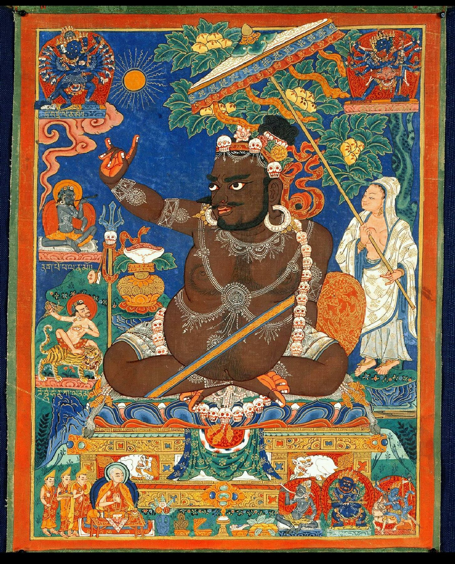 Indian Adept (siddha) - Virupa 16 century Private coll.